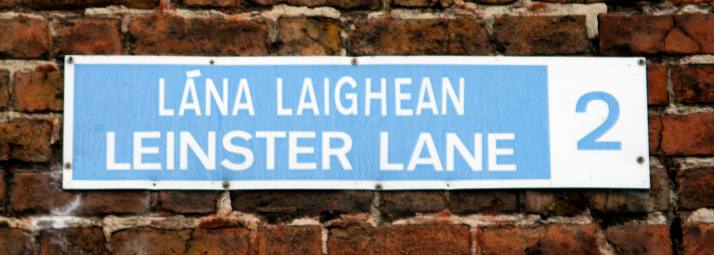 Bi-lingual Irish/English street sign as used in Dublin showing the Dublin Postal District number for the street Leinster Lane